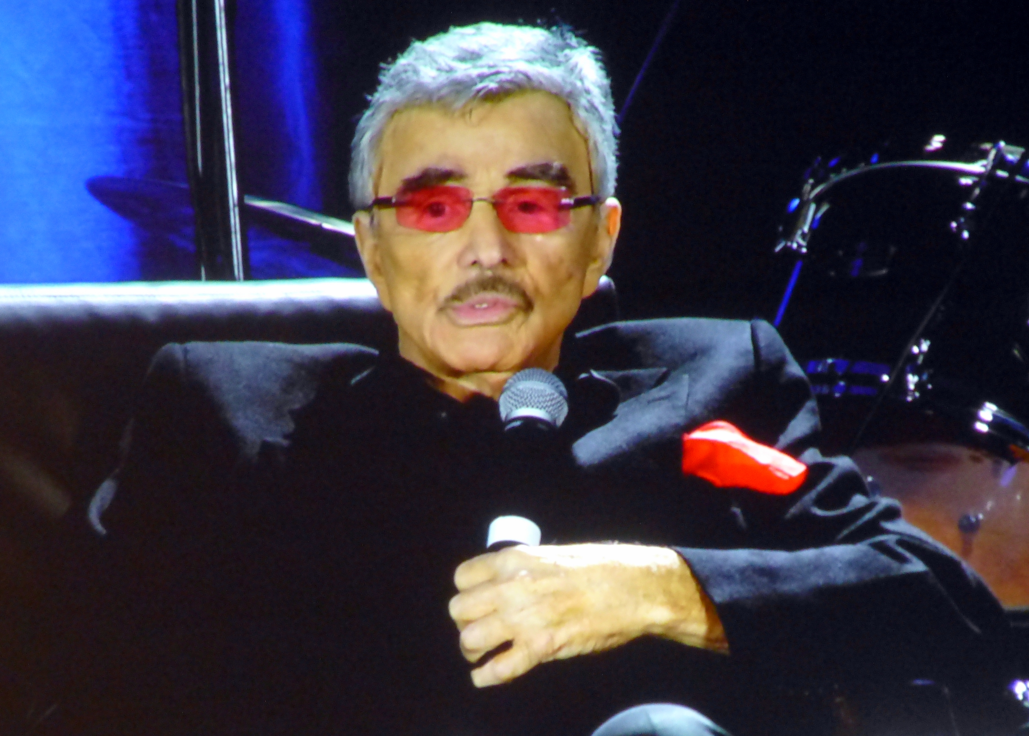 Burt Reynolds 01 Guests at the 2015 Wizard World Chicago.